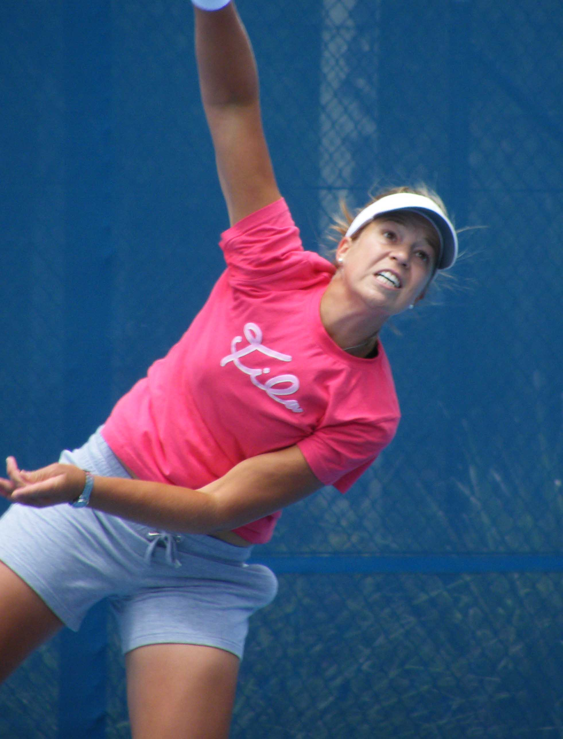 Sophie Ferguson of Australia, NSW Open Tennis, January 2009.